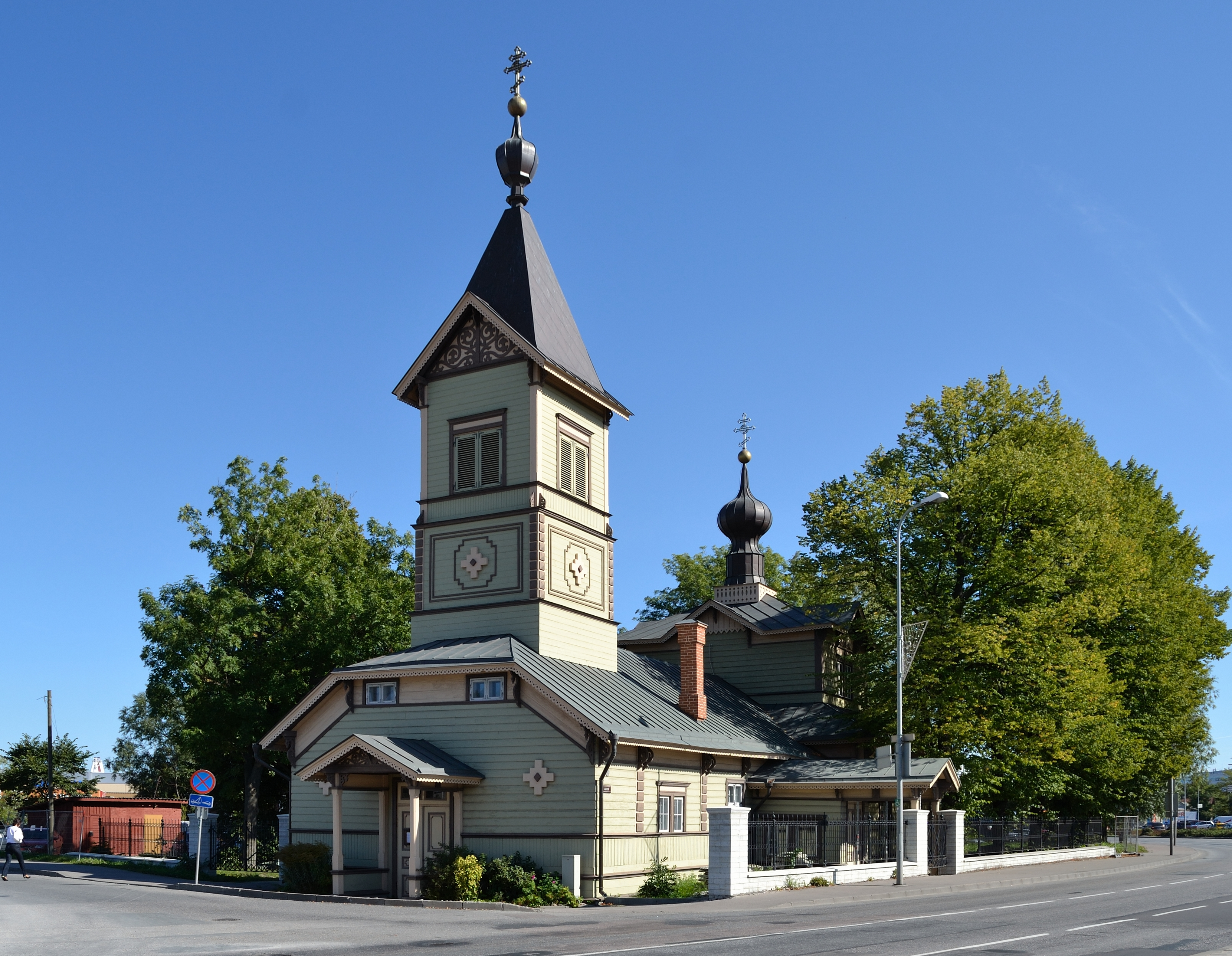 Tallinn, Church of St Simeon and the Prophetess Hanna, built in 1752-1755 This photograph was taken with a Nikon D3100